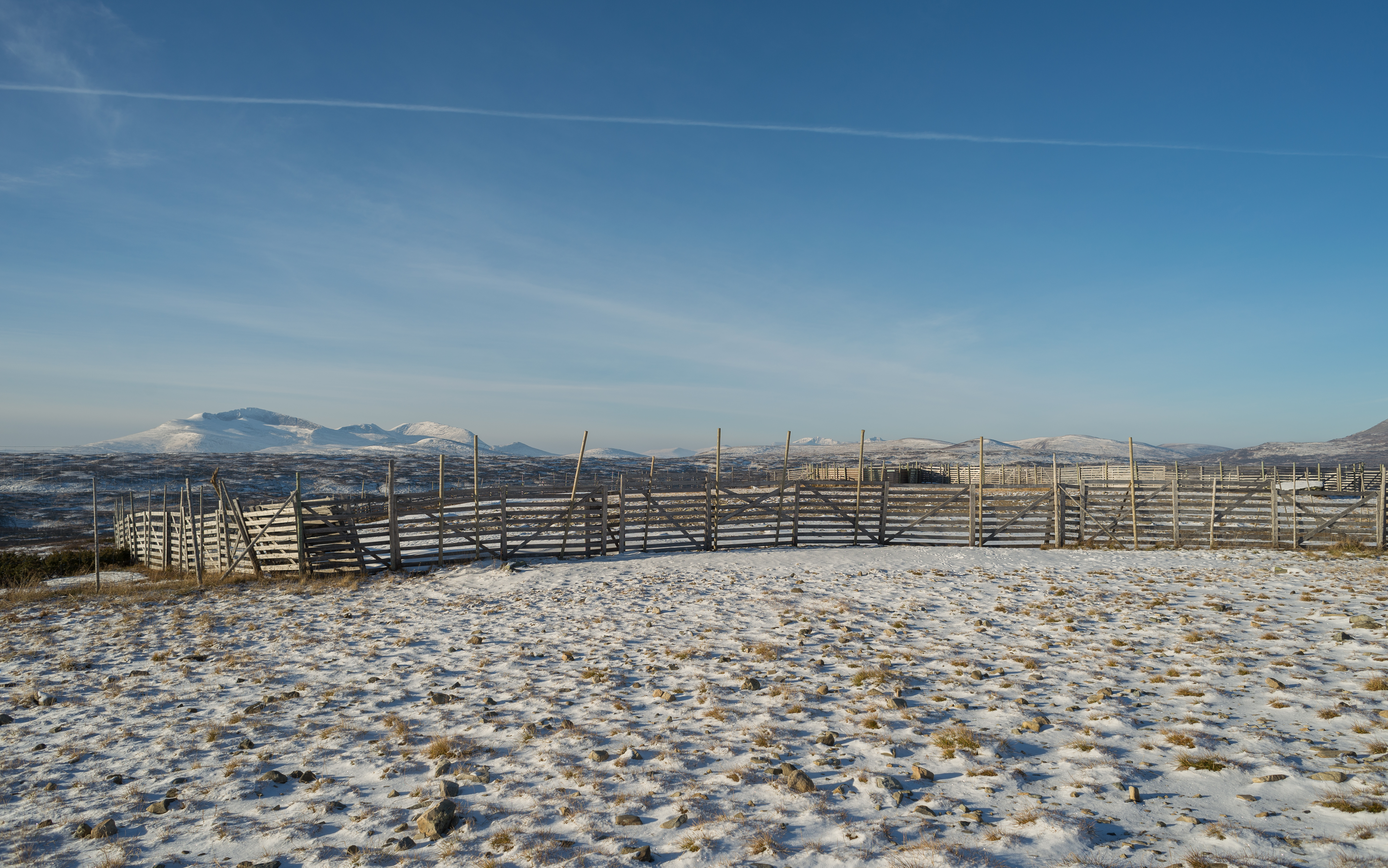 Reindeer calf marking enclosures at Ljungris, Berg Municipality, Jämtland County. Ljungris is owned by the Sámi (Handöldalens sameby) and used for calf marking in the summer. In the background, mount Helag.